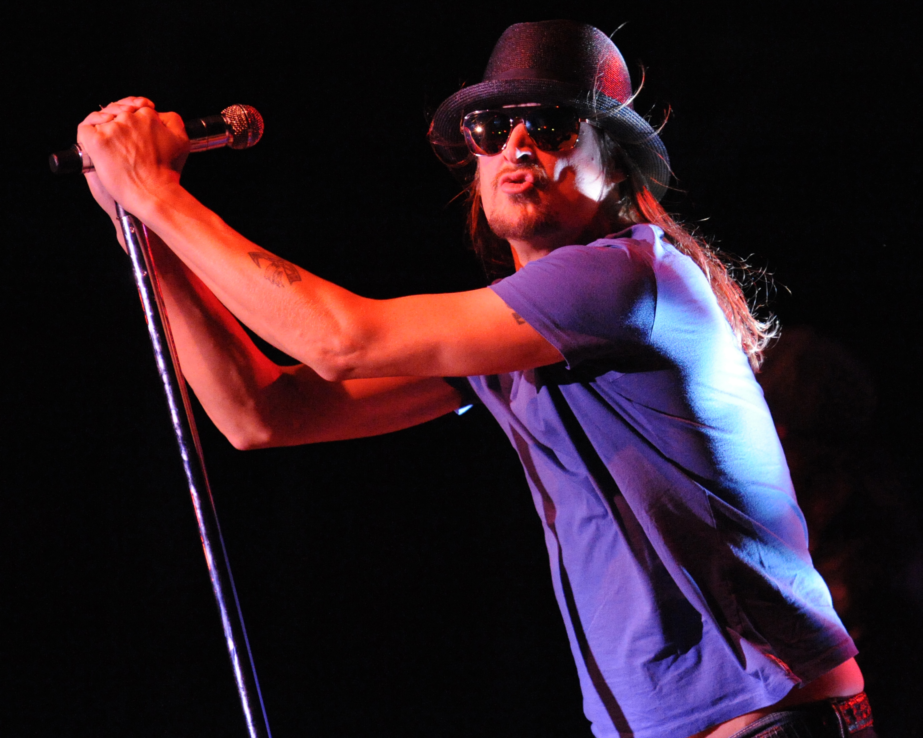 Kid Rock and the Twisted Brown Trucker Band brought their unique blend of Southern rock, soul, country, heavy metal and hip hop to Hanger 1, Ramstein Air Base Germany, Dec. 9, 2009. Kid Rock and his band will entertain American troops in Southwest Asia and families in Europe Nov. 30 to Dec. 12 as a part of the "Tour for the Troops 2009". (U.S. Air Force photo by: TSgt Sean Mateo White).